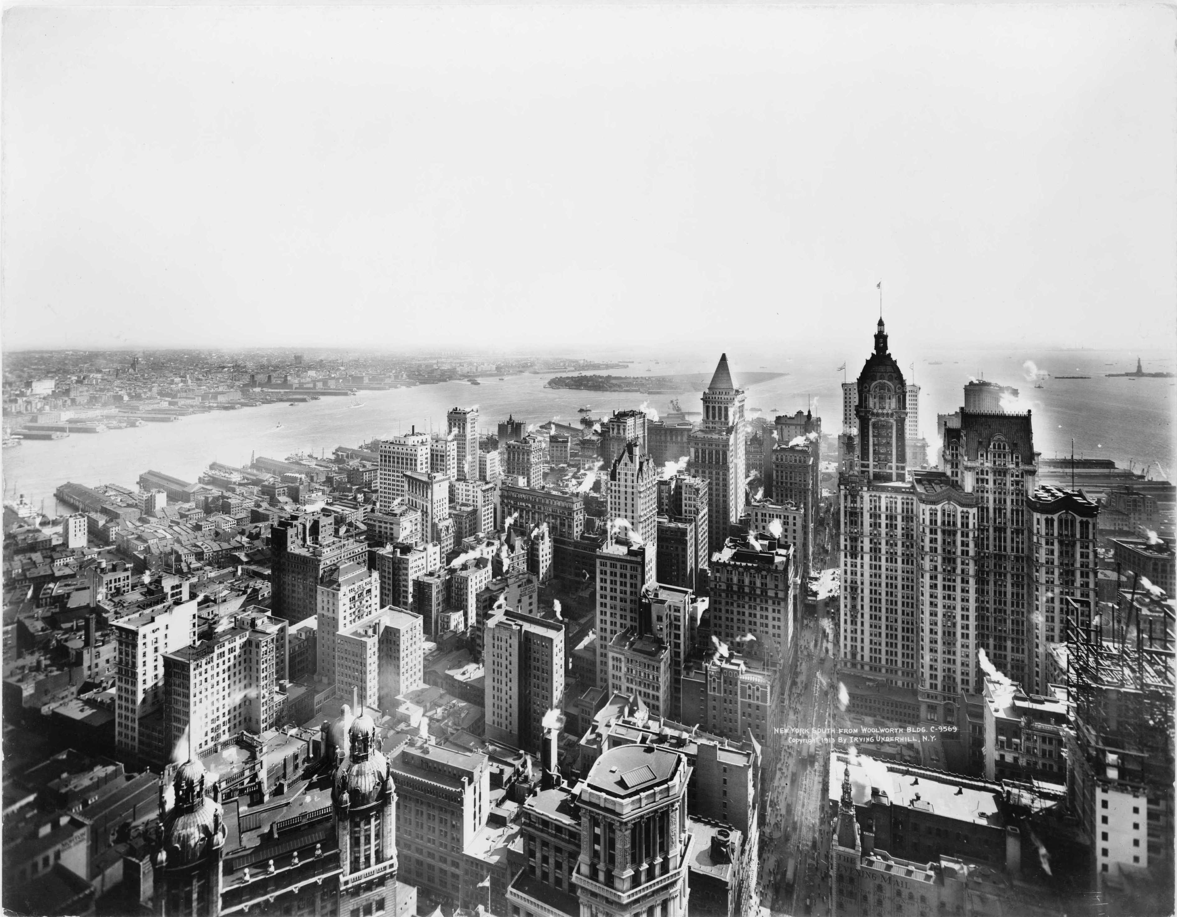 Southern Manhattan seen from the Woolworth Building, 1913.